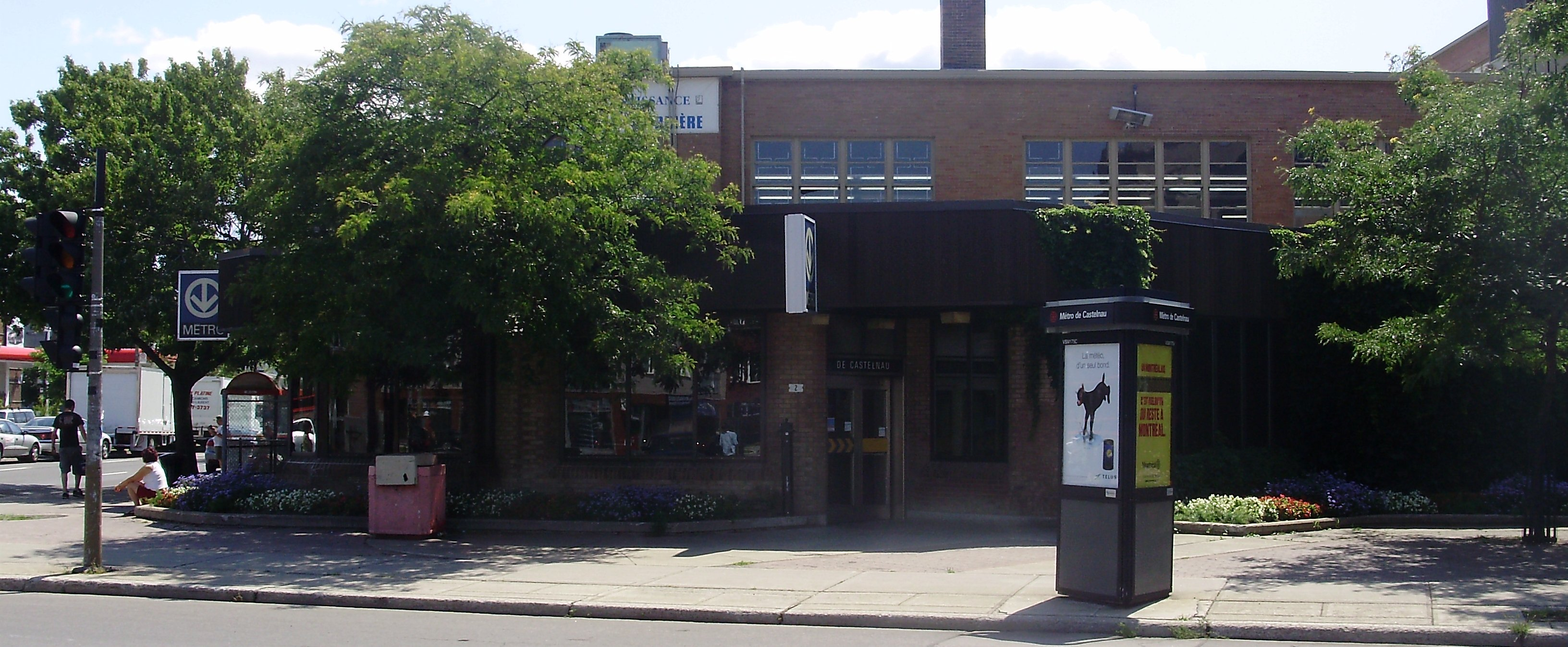 The Société de transport de Montréal's De Castelnau metro station in Montreal, Quebec, Canada.